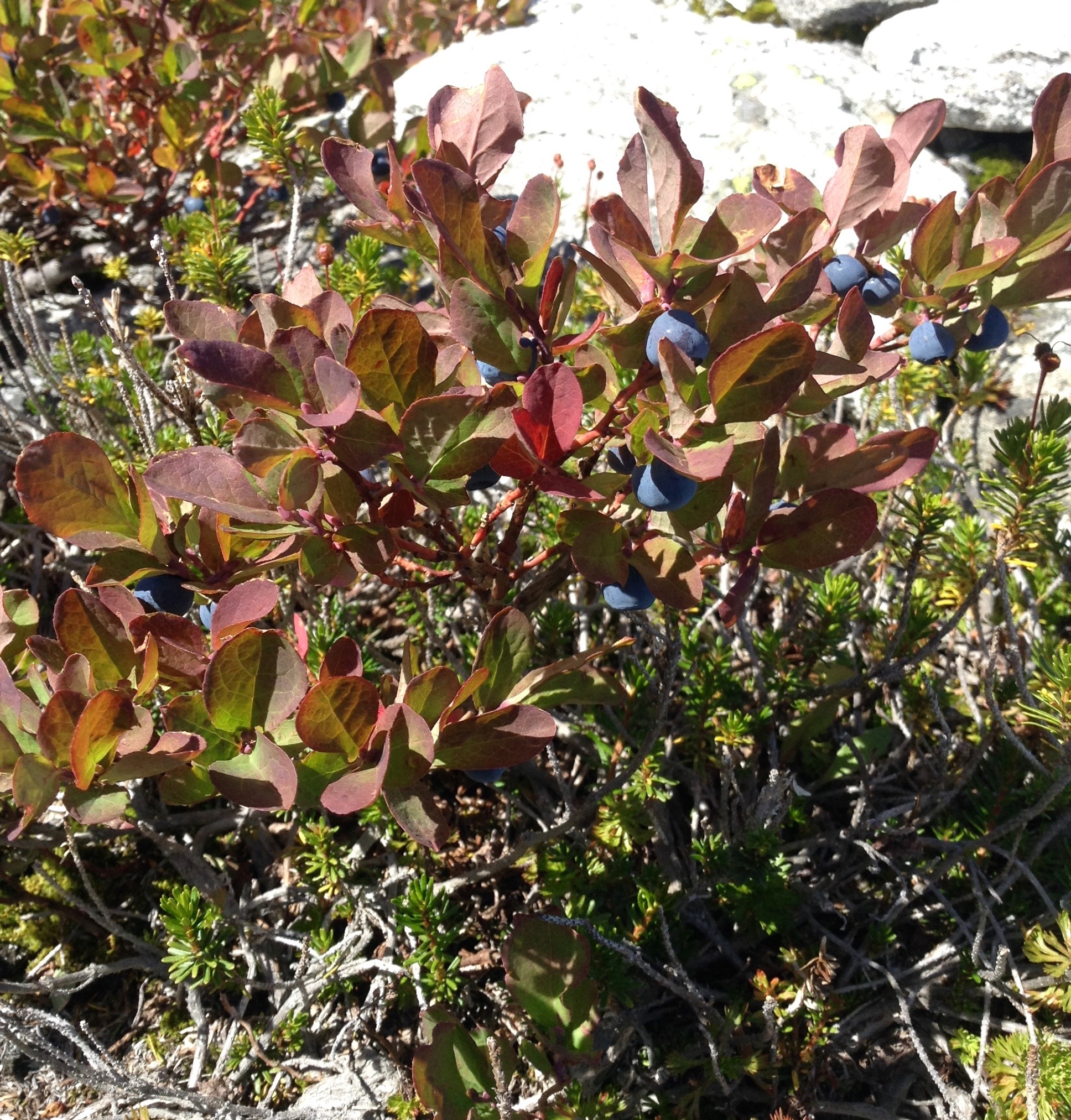 Full plant Vaccinium Deliciosum taken September 2016